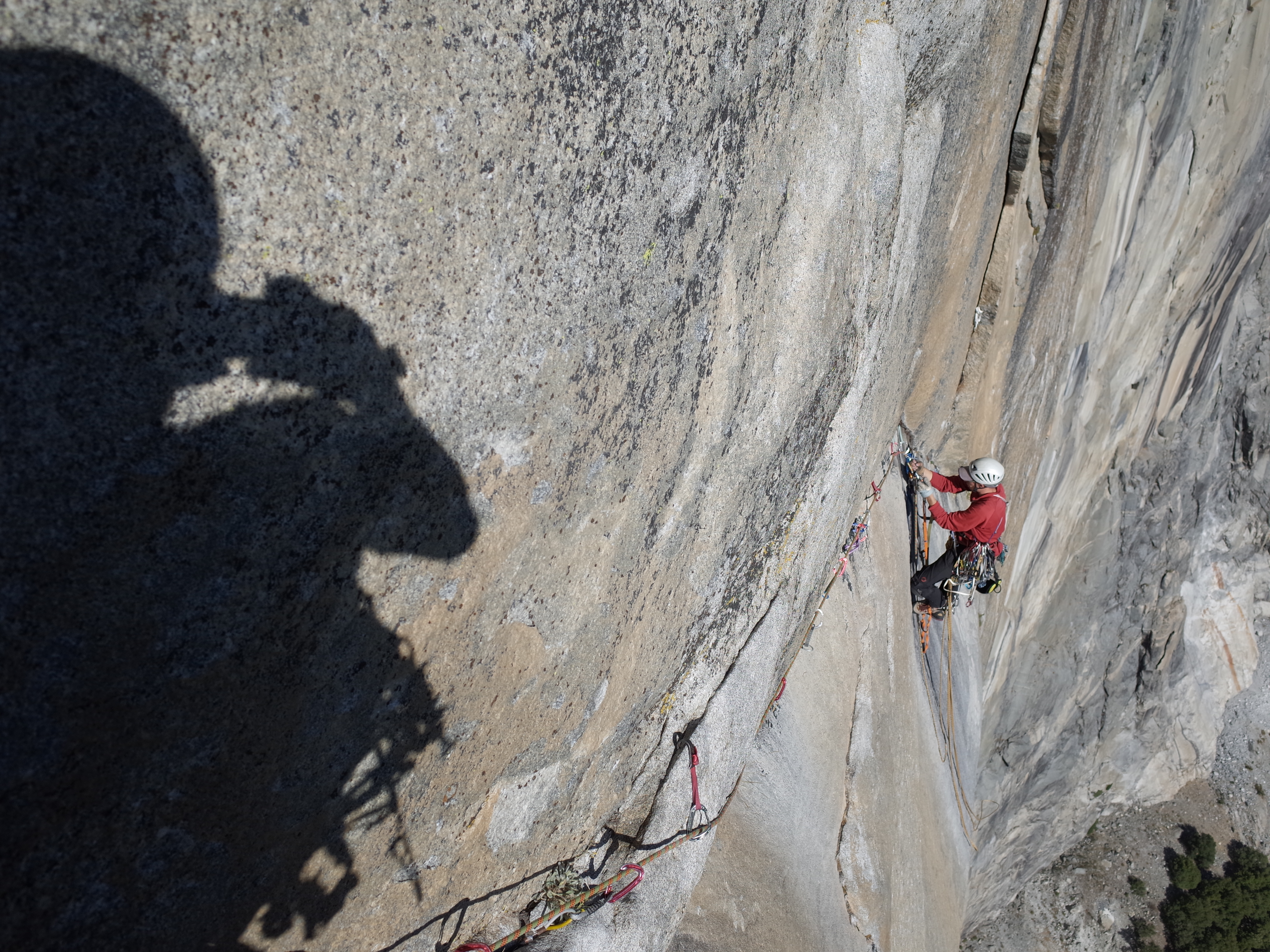 Aid climbing on El Capitan. Photo by: Kristoffer Szilas.